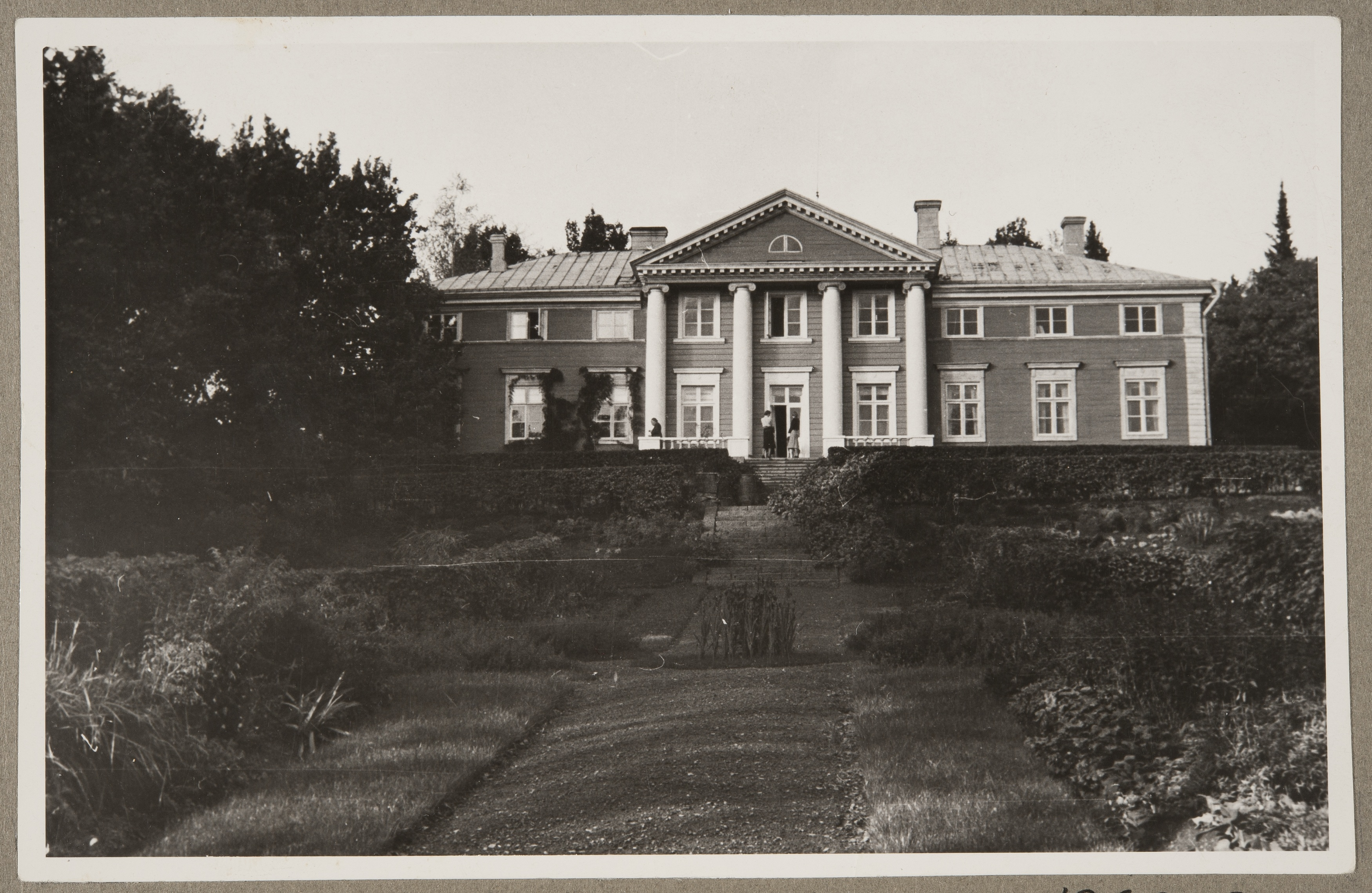 Königstedt Manor in Helsingin maalaiskunta (now Vantaa), Finland.